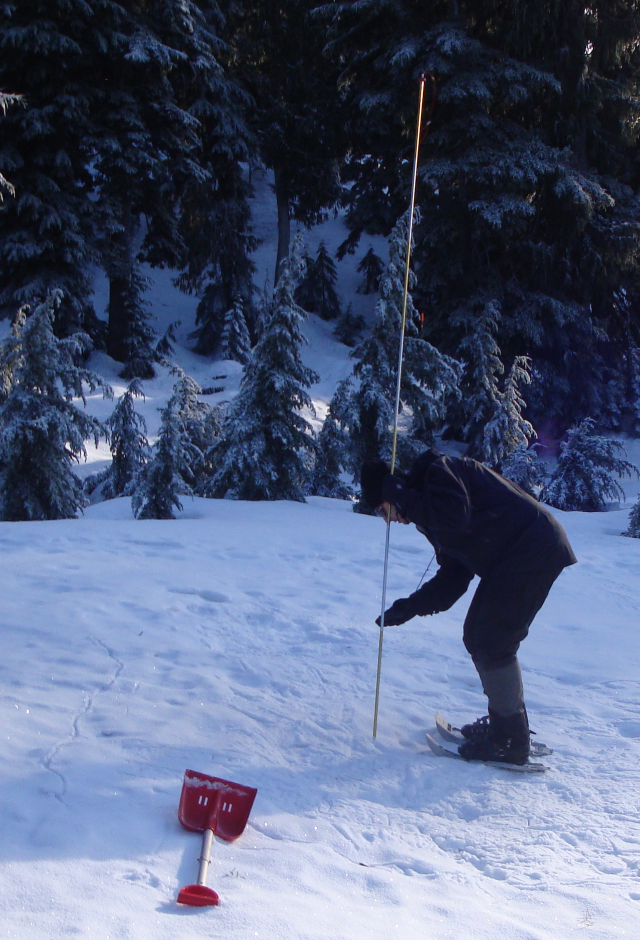 Person using a beacon, prove, and shovel to uncover a buried avalanche beacon during a practice drill